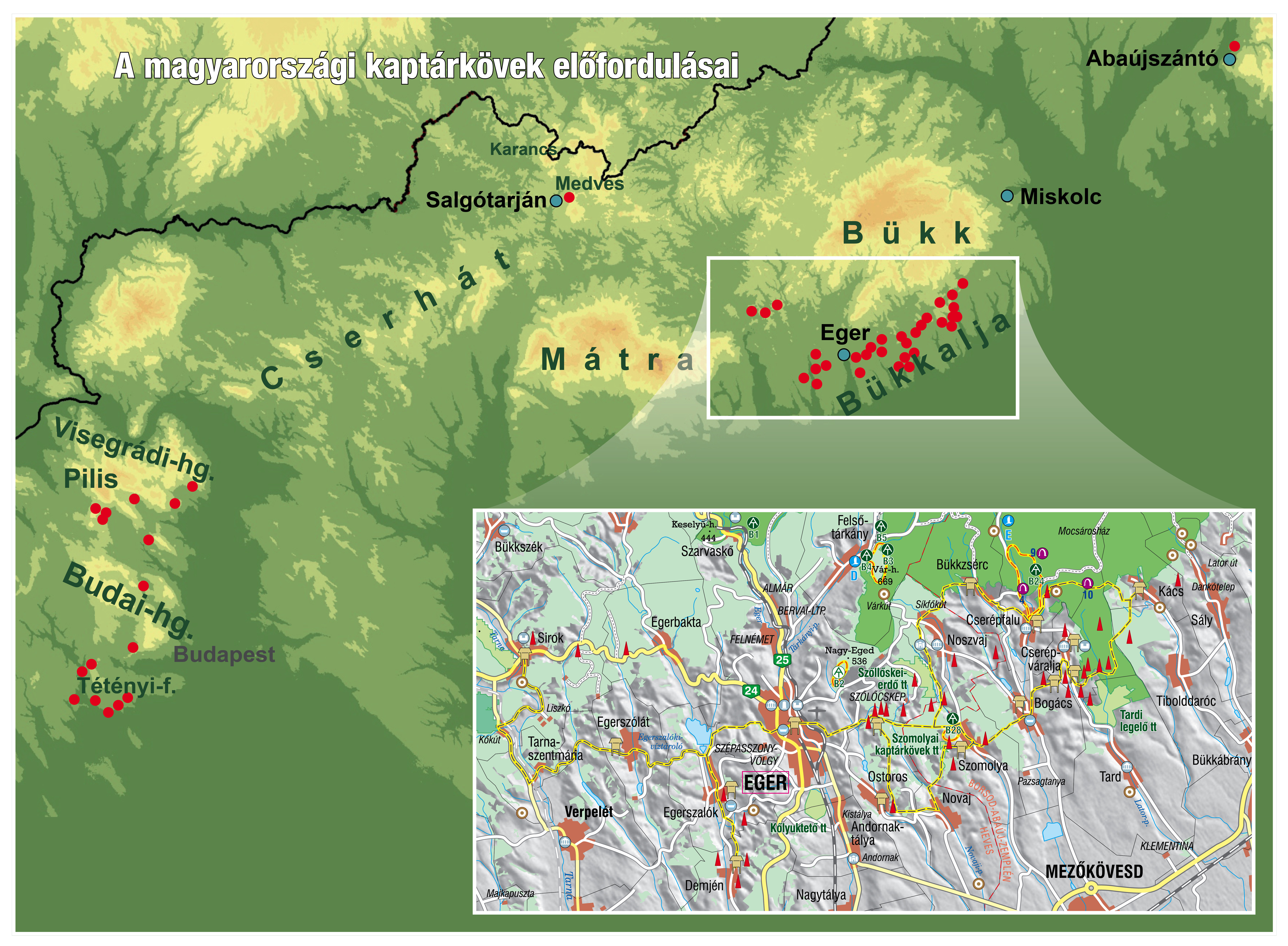 Beehive stone sites in Hungary, map